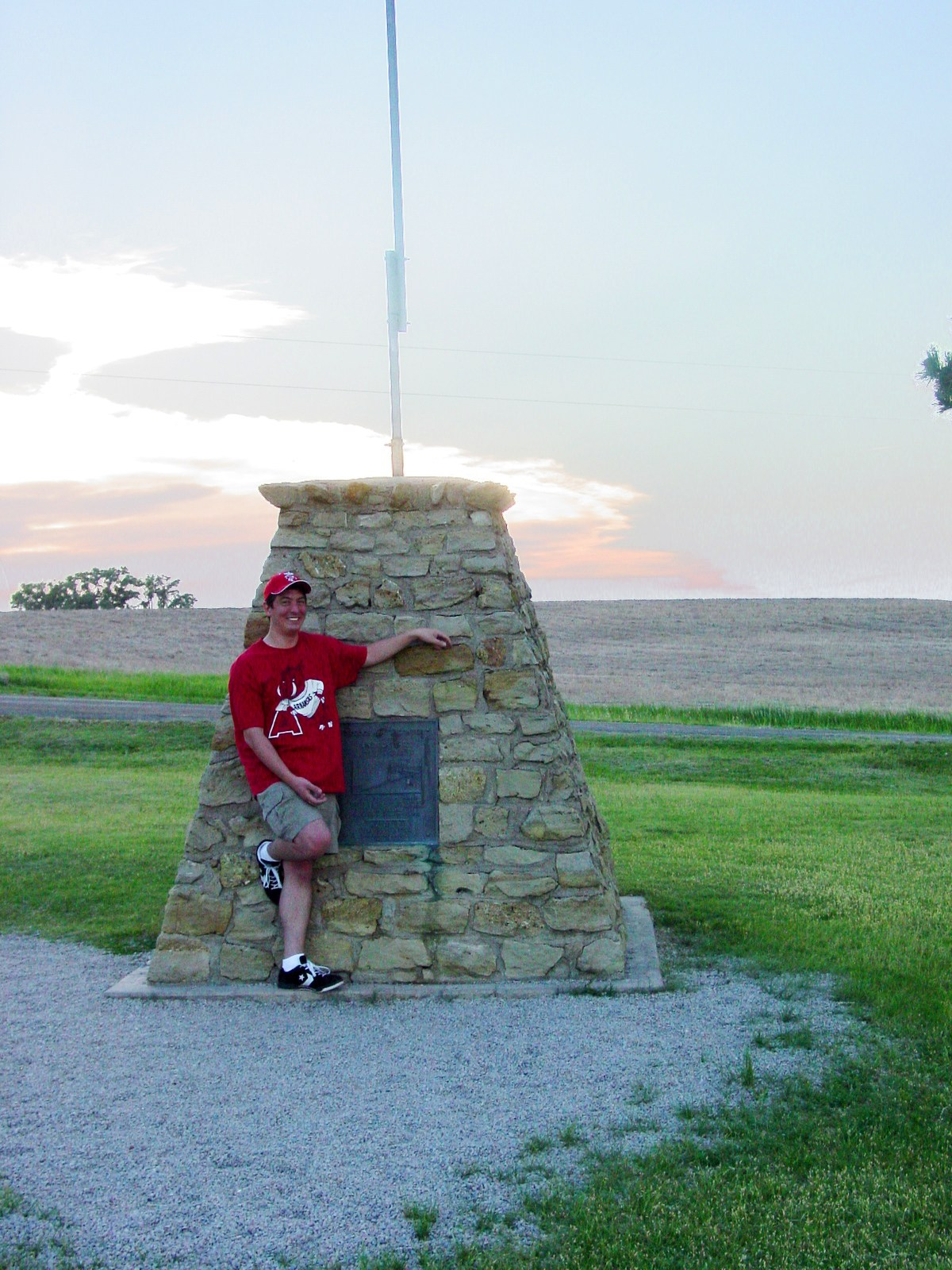 Taken by MadMaxMarchHare. A tourist enjoys his visit to the "Center of the U.S." marker near Lebanon, Kansas.